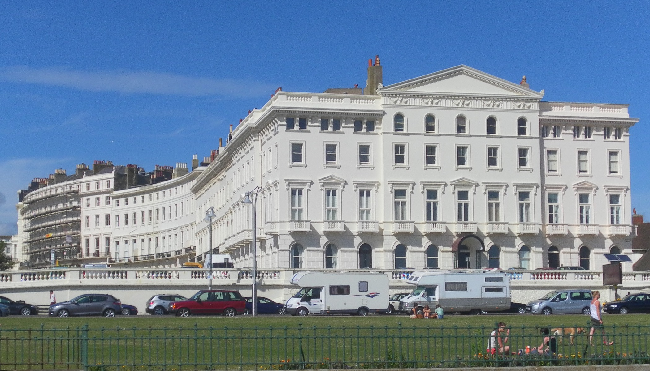 1–19 Adelaide Crescent, Hove, City of Brighton and Hove, England. These houses form the east side of Adelaide Crescent. Listed at Grade II* by English Heritage (NHLE Code 1298665)